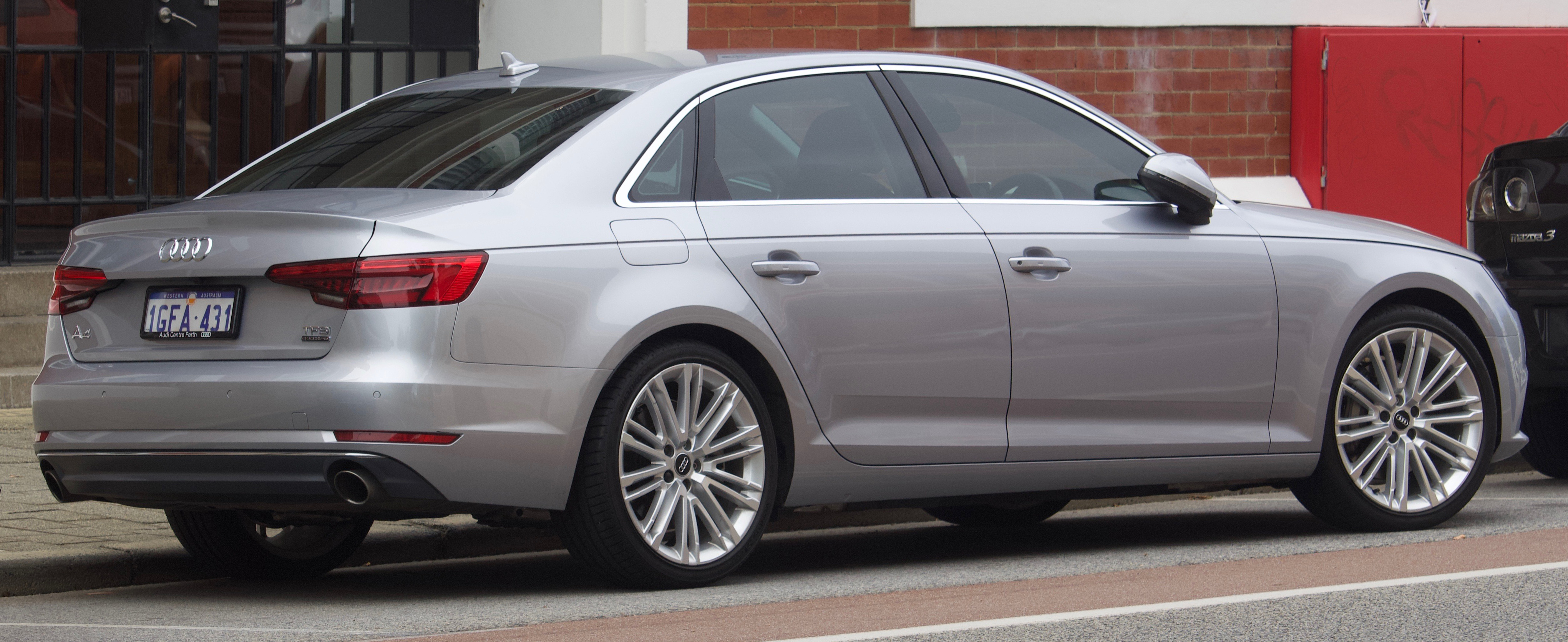 2017 Audi A4 (8W) sport quattro sedan. Photographed in Fremantle, Western Australia, Australia.